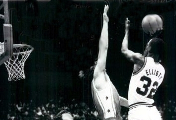 University of Arizona basketball player Sean Elliot (right) taking a one-handed shot during a game from the 1987-88 college basketball season.